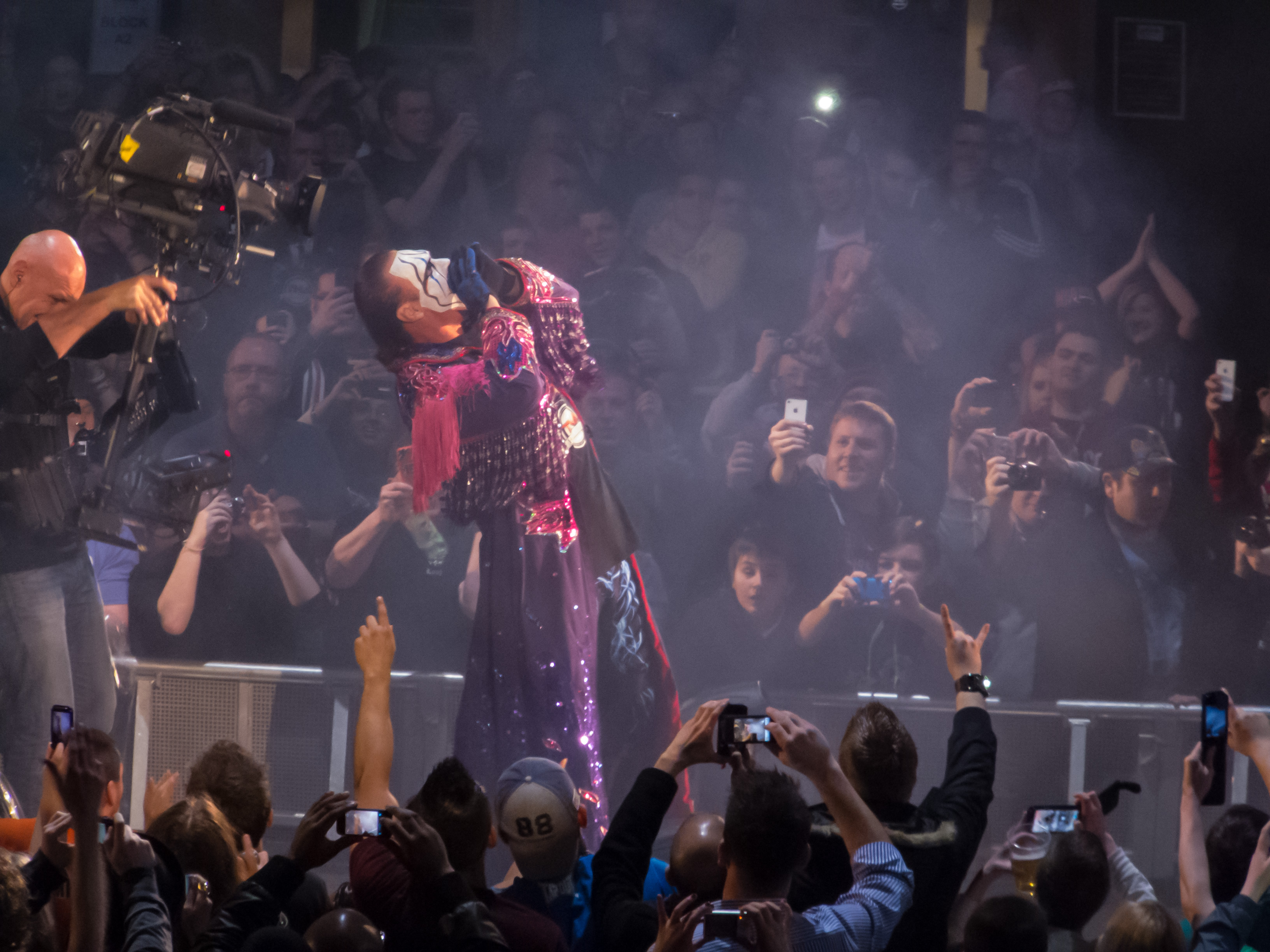 Sting at the Impact! TV Tapings in Wembley, England on January 26, 2013.